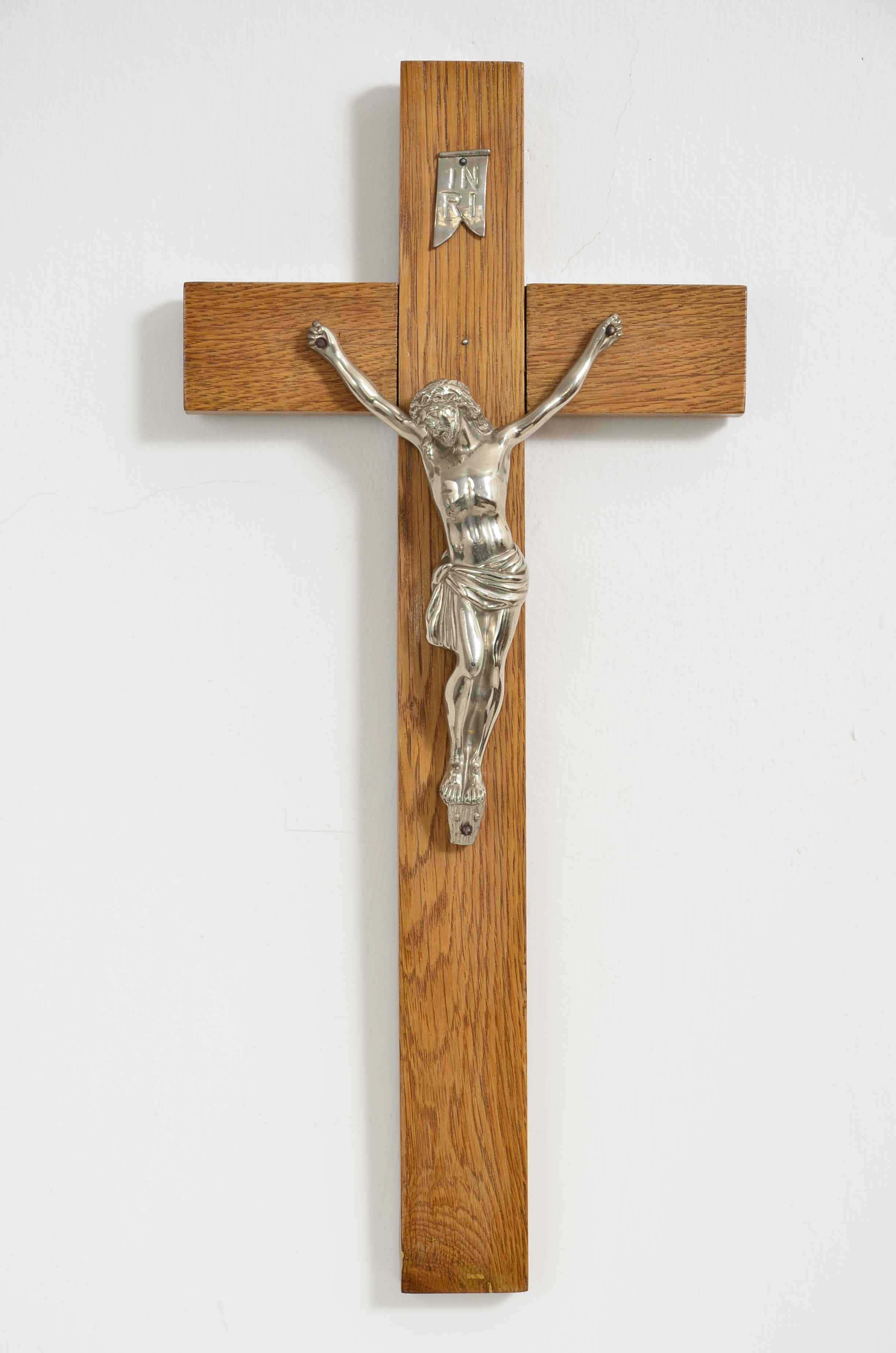 Crucifix. Metal Christ, wooden cross 45x20 cm.